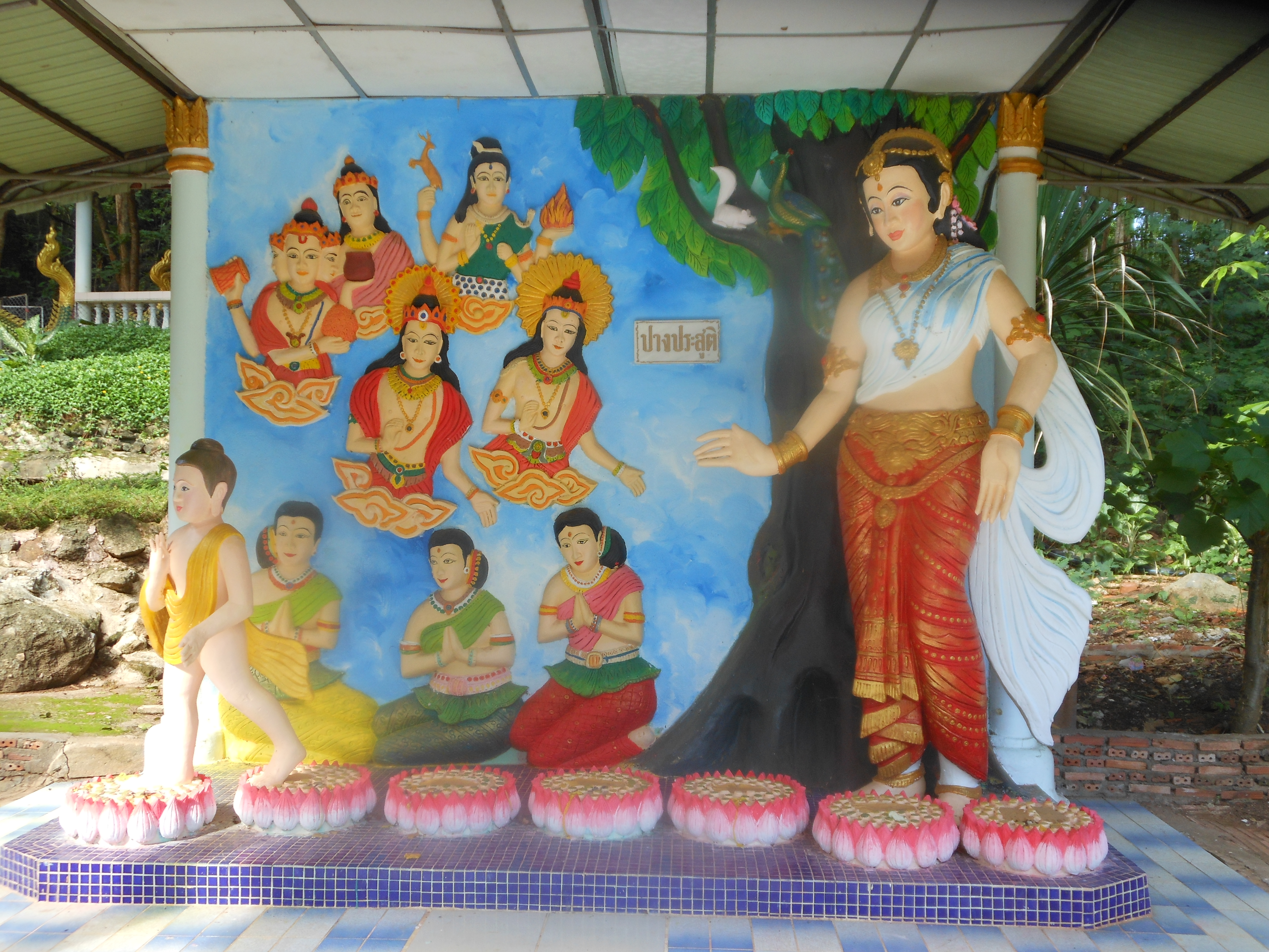 th-ประสูตร